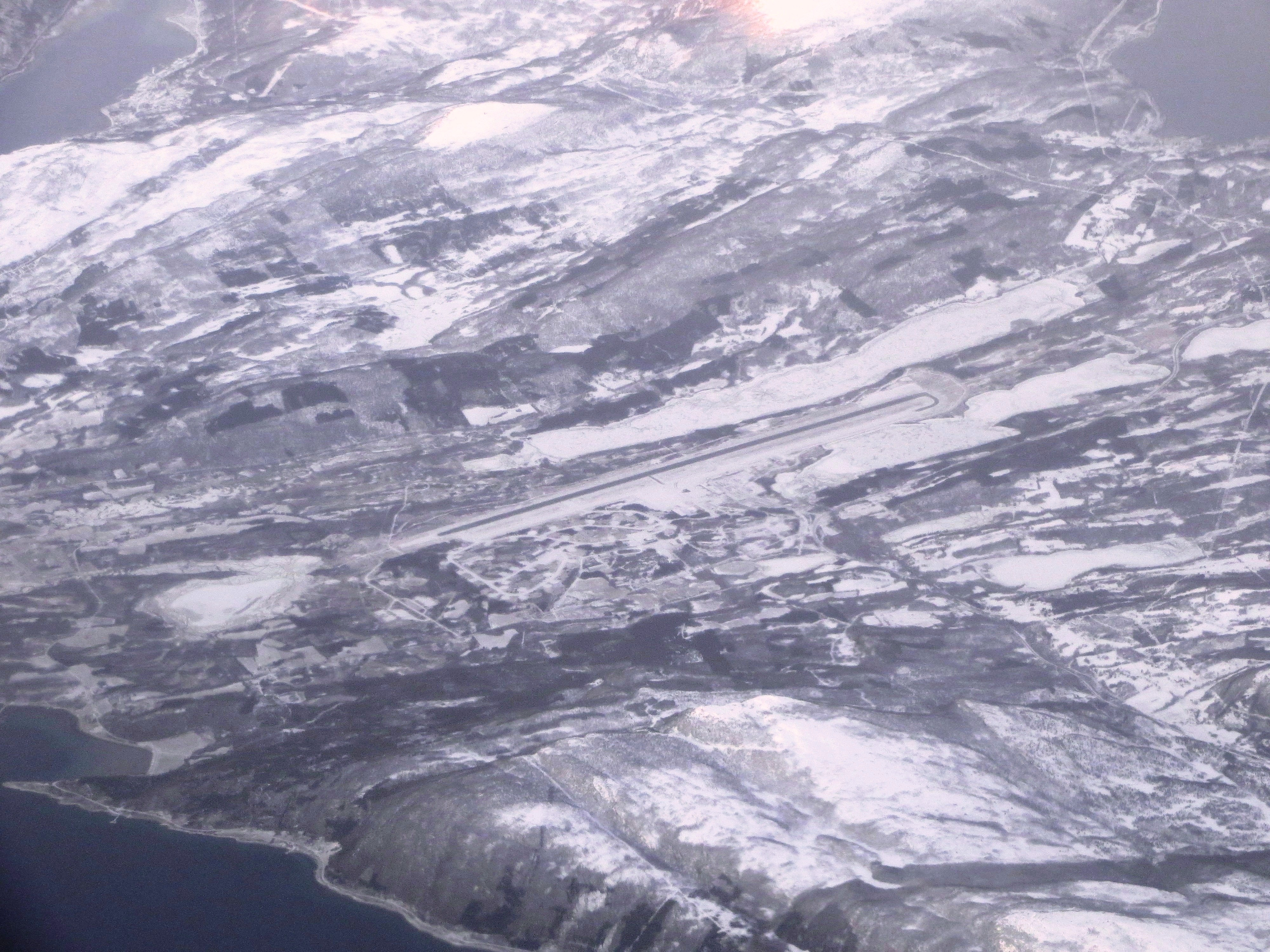 Aerial view from the east towards west, of evenes municipality (Nordland county, Norway). The barely visible landing stripe is Evenes airport.